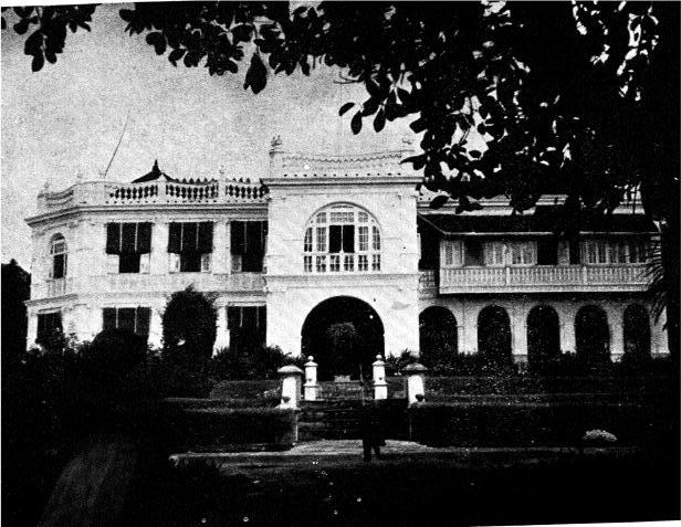 Bhaktivilas, the residence of Sir C. P. Ramaswami Iyer at Travancore